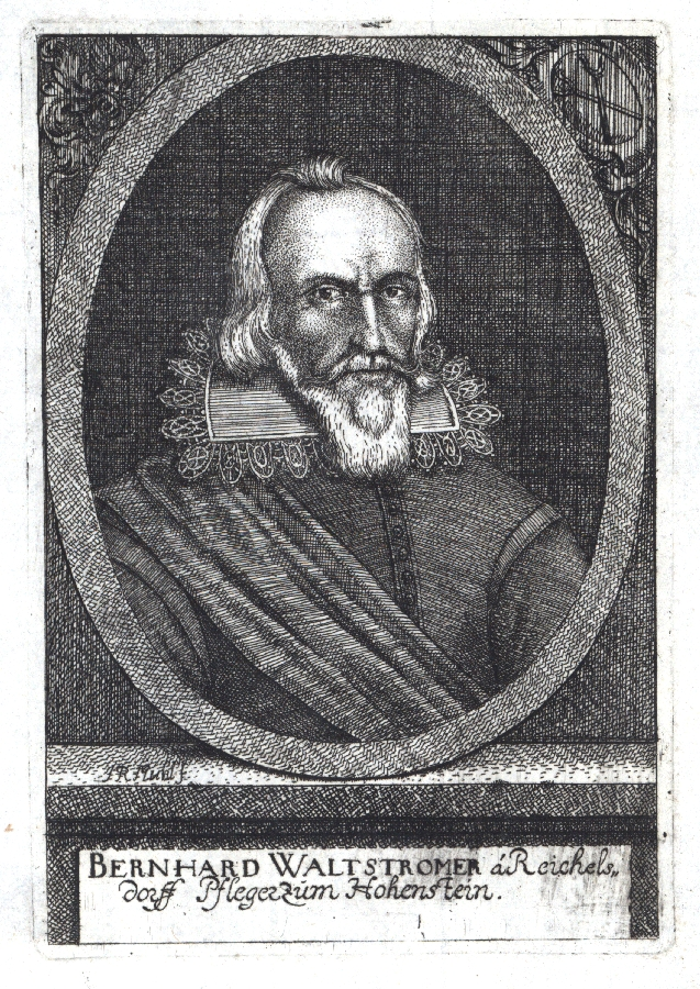 Portrait of Bernhard Waldstromer von Reichelsdorf, by Johann Reinhold Mühl(1631 - 1692).